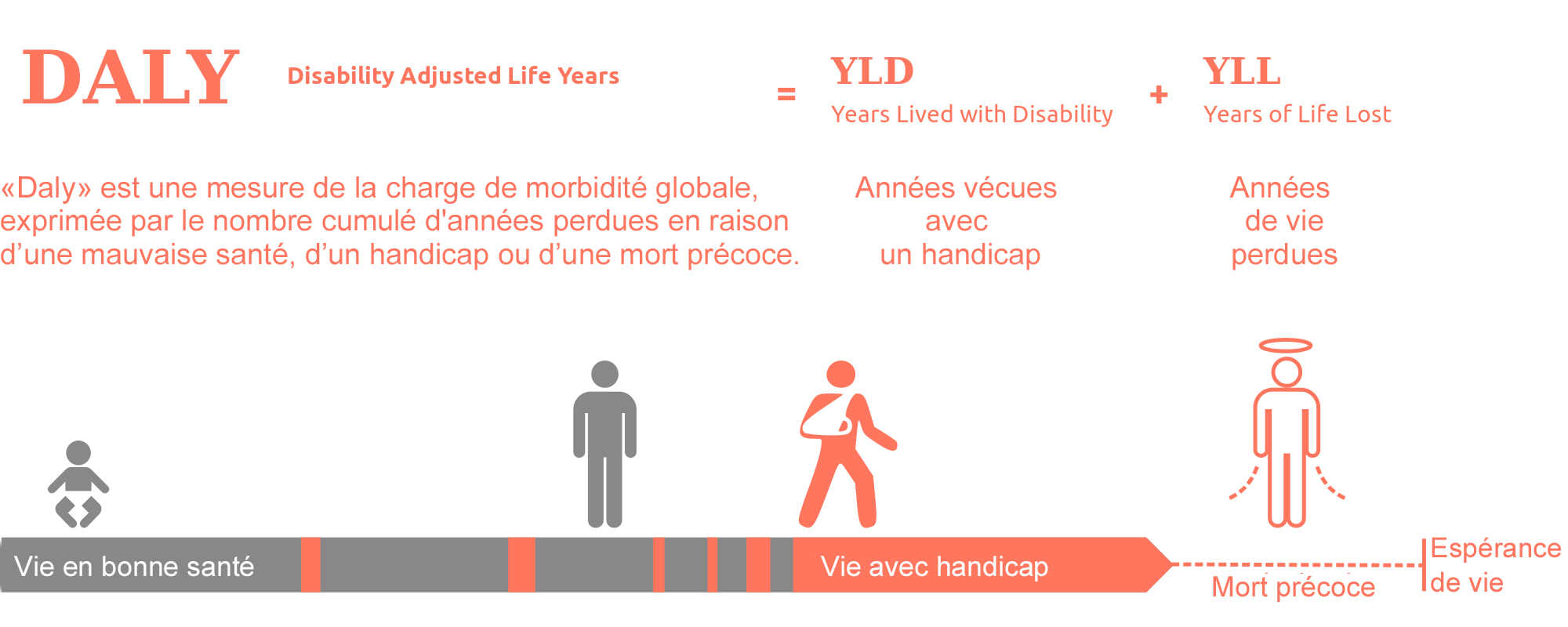 Infographic for DALY Disability adjusted life year